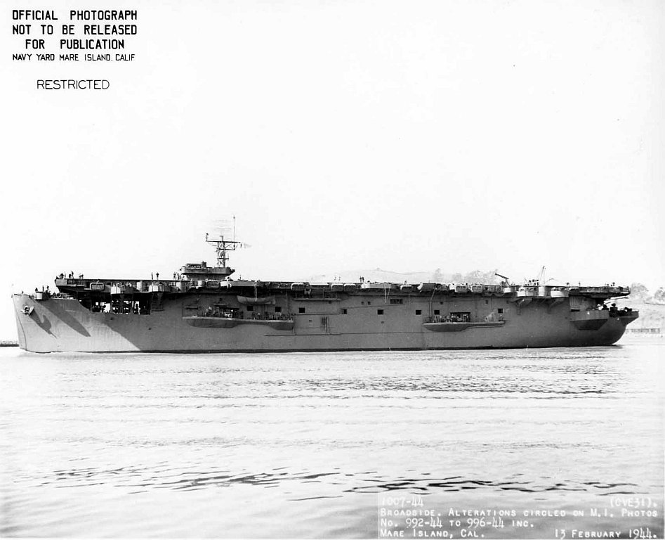 Broadside view of USS Prince William (CVE-31) off Mare Island on 13 February 1944. She was undergoing repairs at the yard from 15 January to 13 February 1944. Official Mare Island photo # 1007-44.